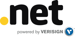 .net domain name logo powered by Verisign